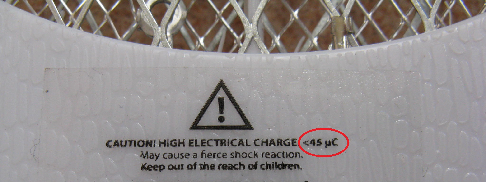 Safety precaution for humans using the flyswatter: maximum charge 45uC